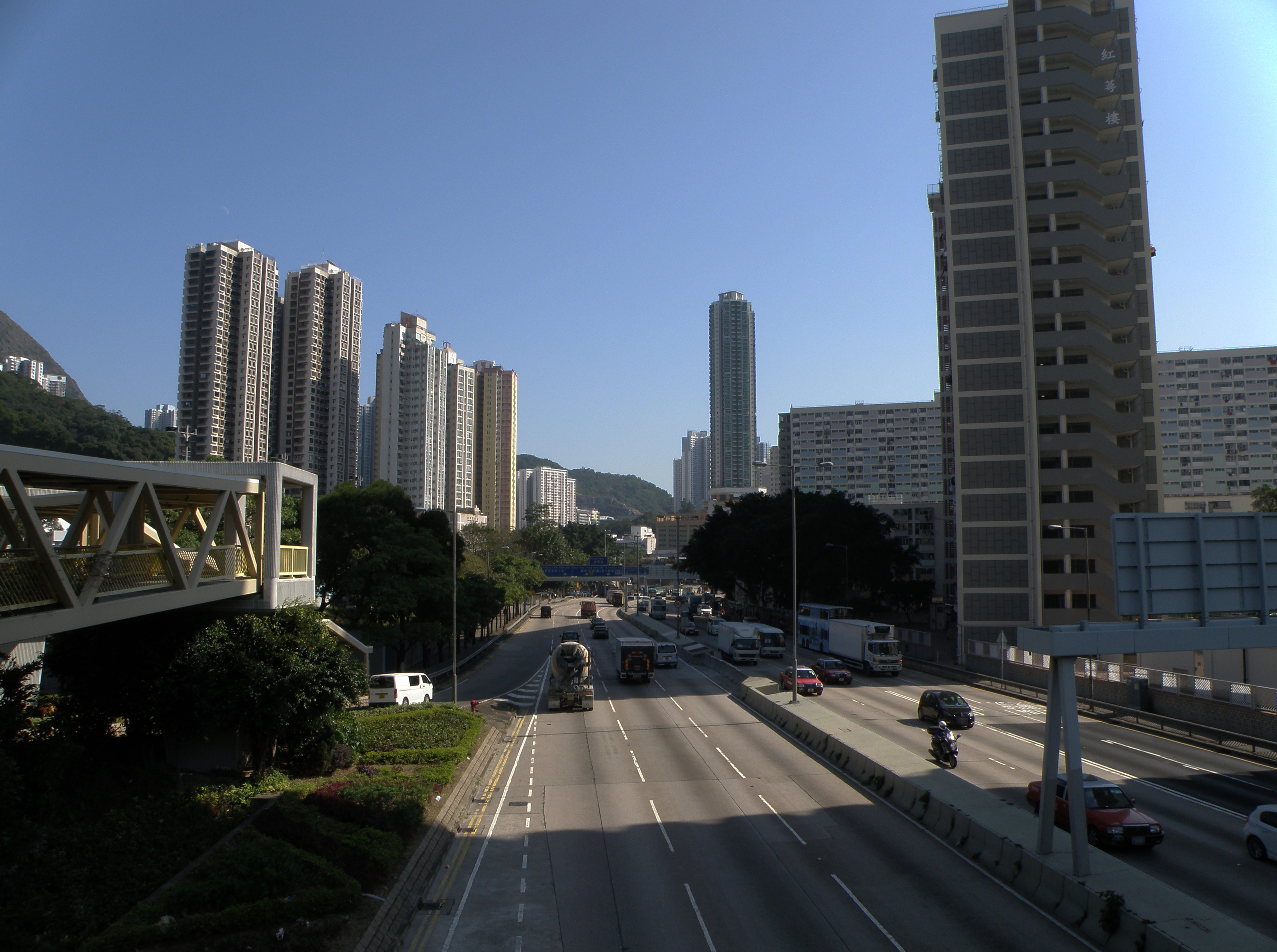 Lung Cheung Road in Choi Hung, Hong Kong.